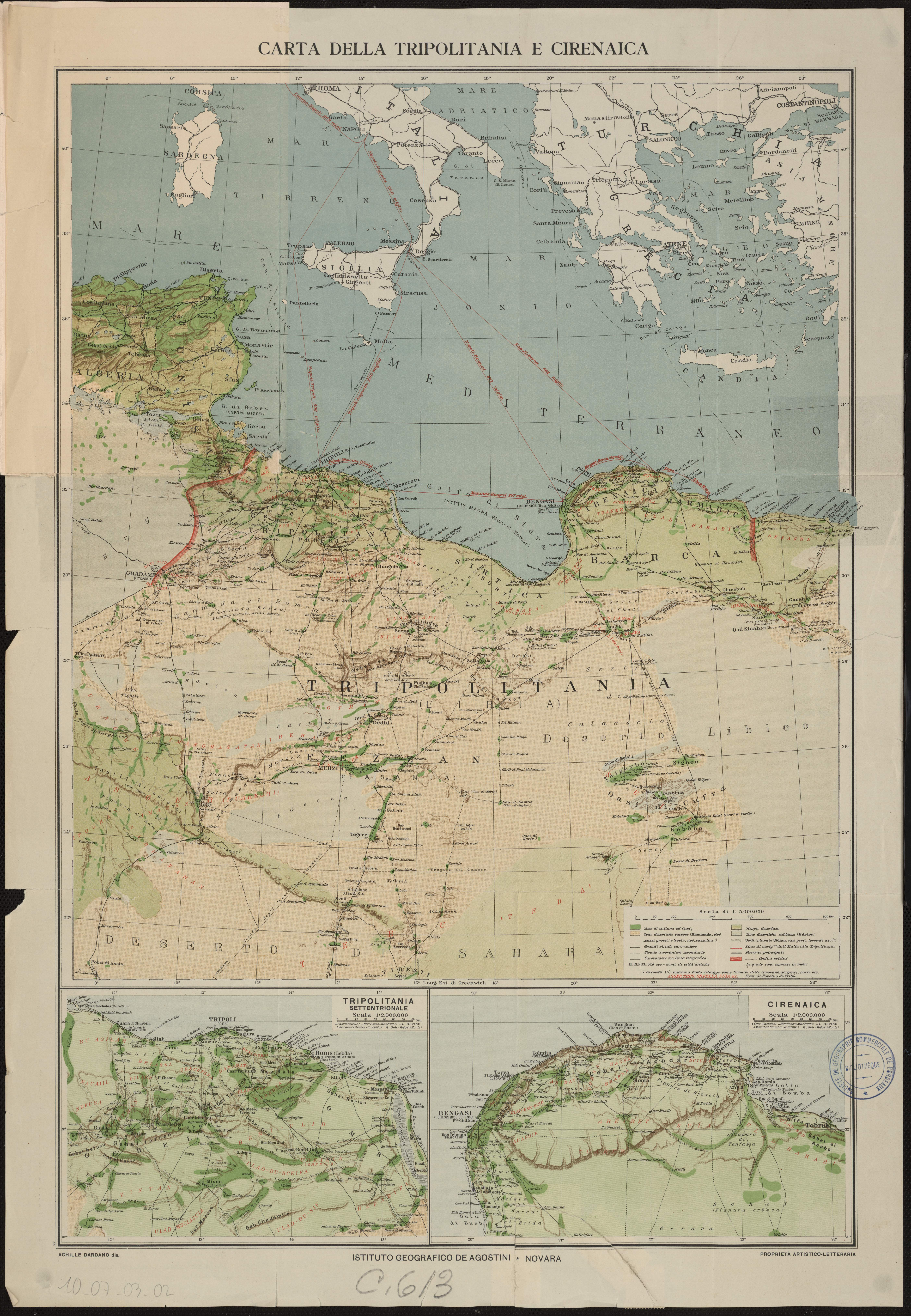 1912 map of Italian Libya